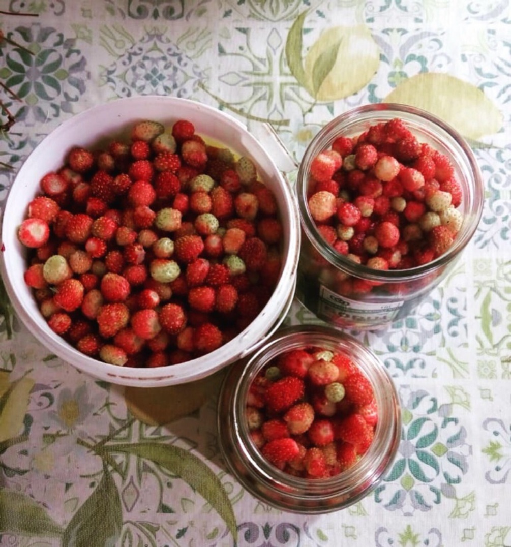 Strawberries collected in Eastern Siberia